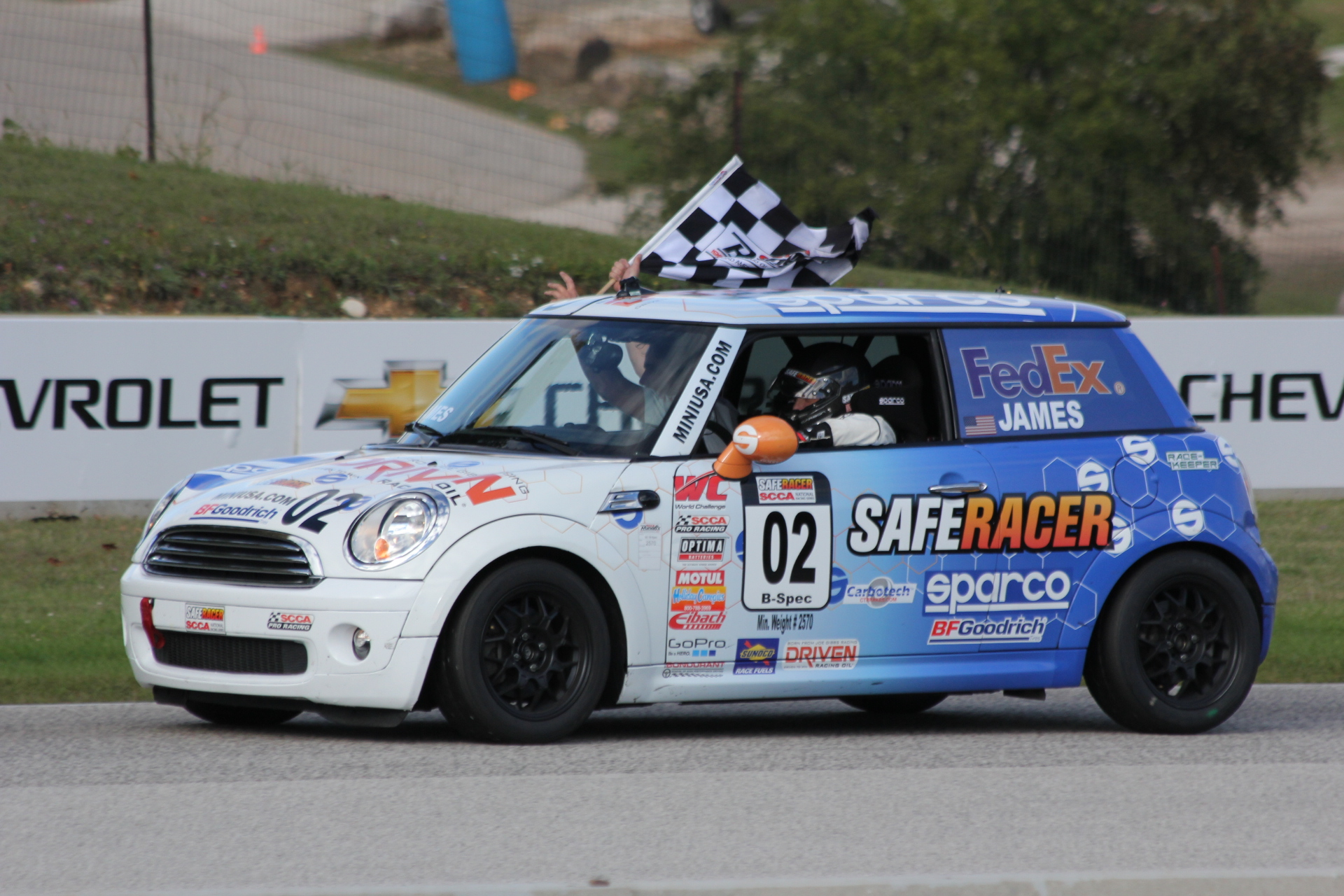 Charlie James celebrated his win in B Spec at the 2013 SCCA National Championship runoffs.